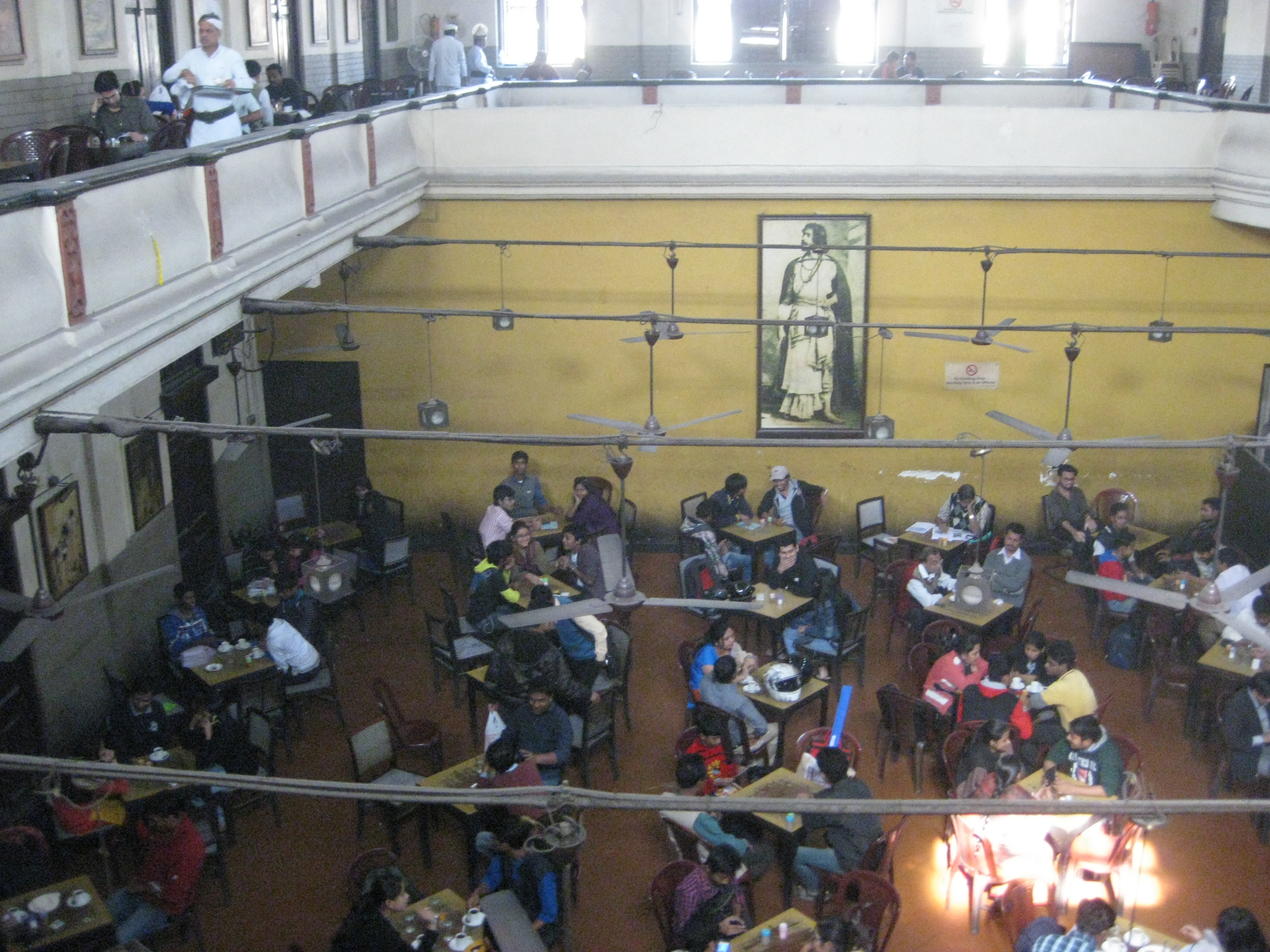 Coffee house view from 1st floor, college street in Kolkata